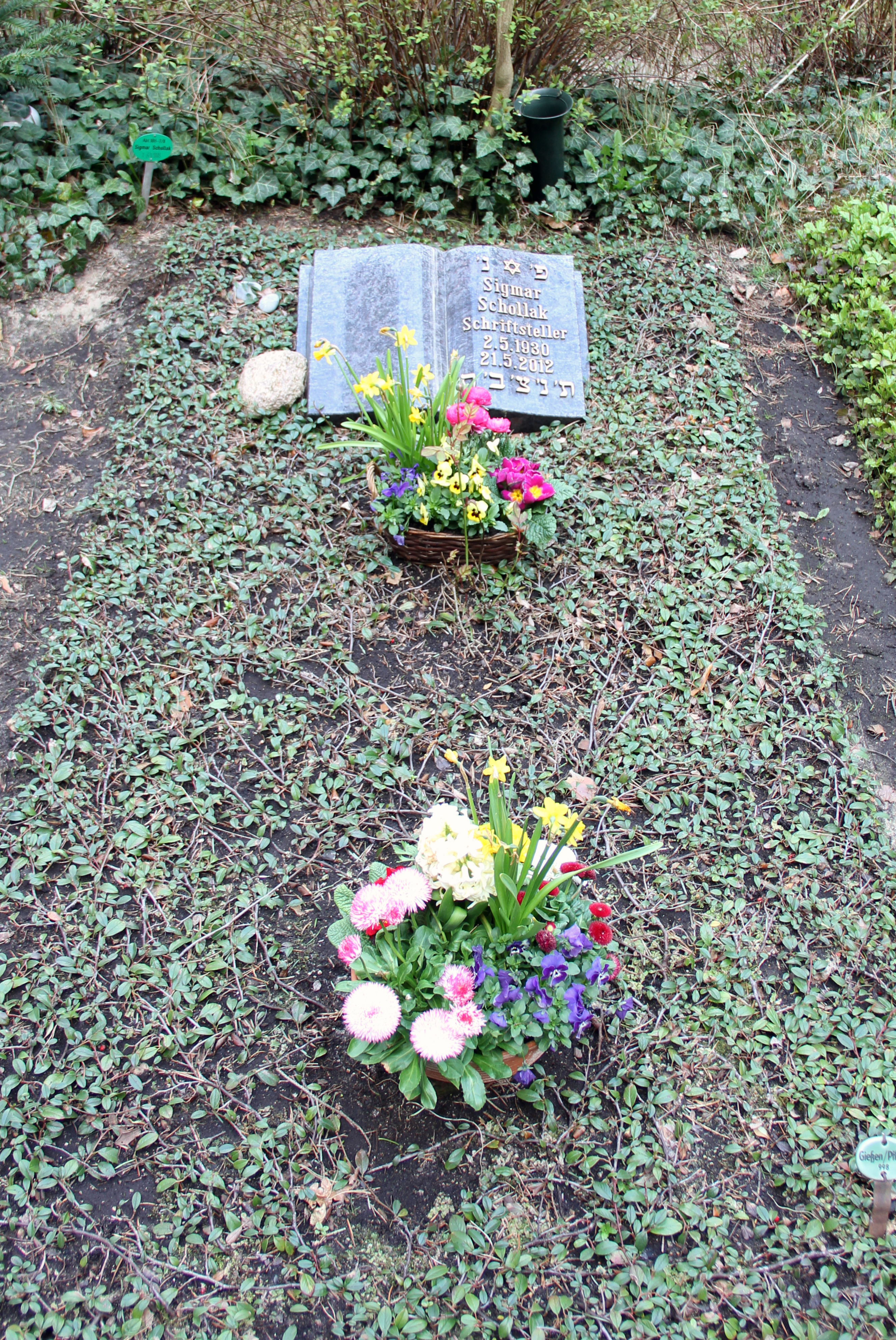 Grave, Sigmar Schollak, Trakehner Allee 1, Berlin-Westend, Germany